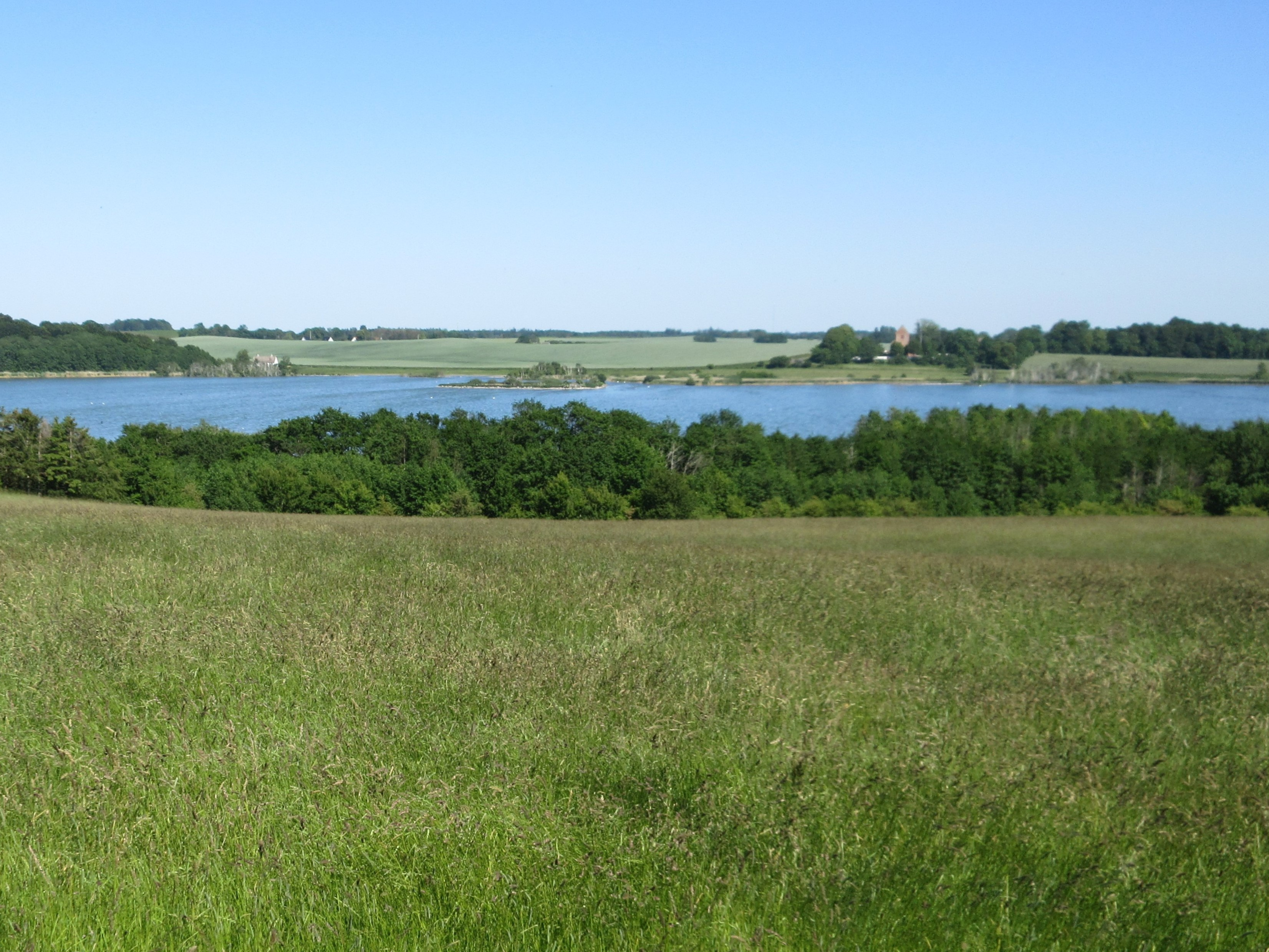 Selsø Sø seen from the west in Denmark